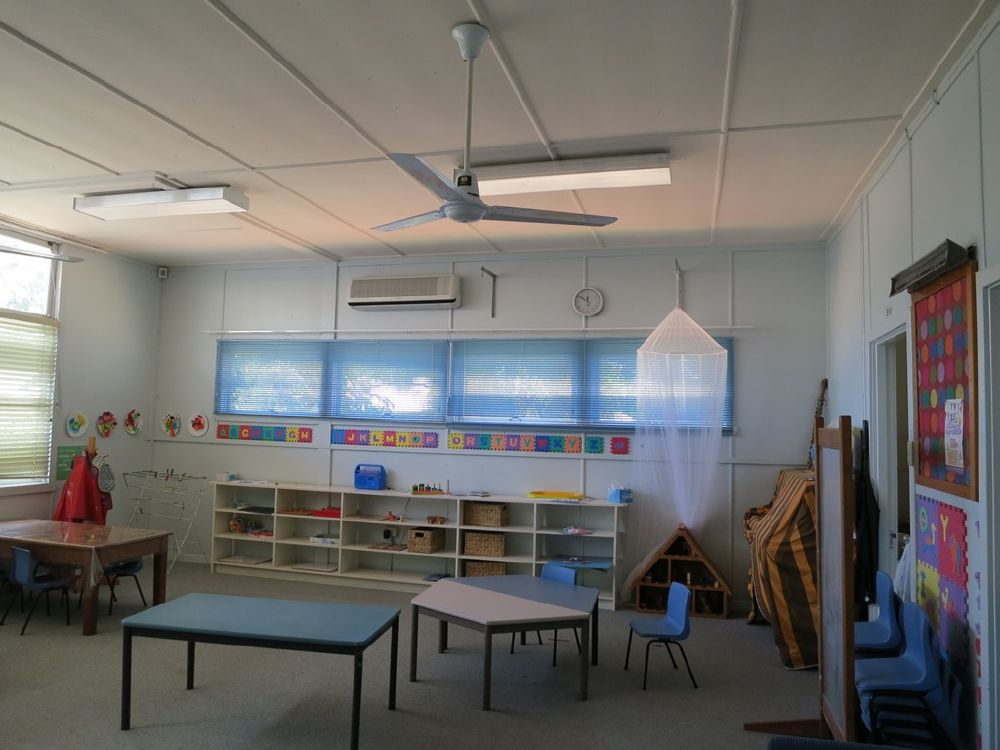 1950s Timber School Building interior, Toowoomba North State School